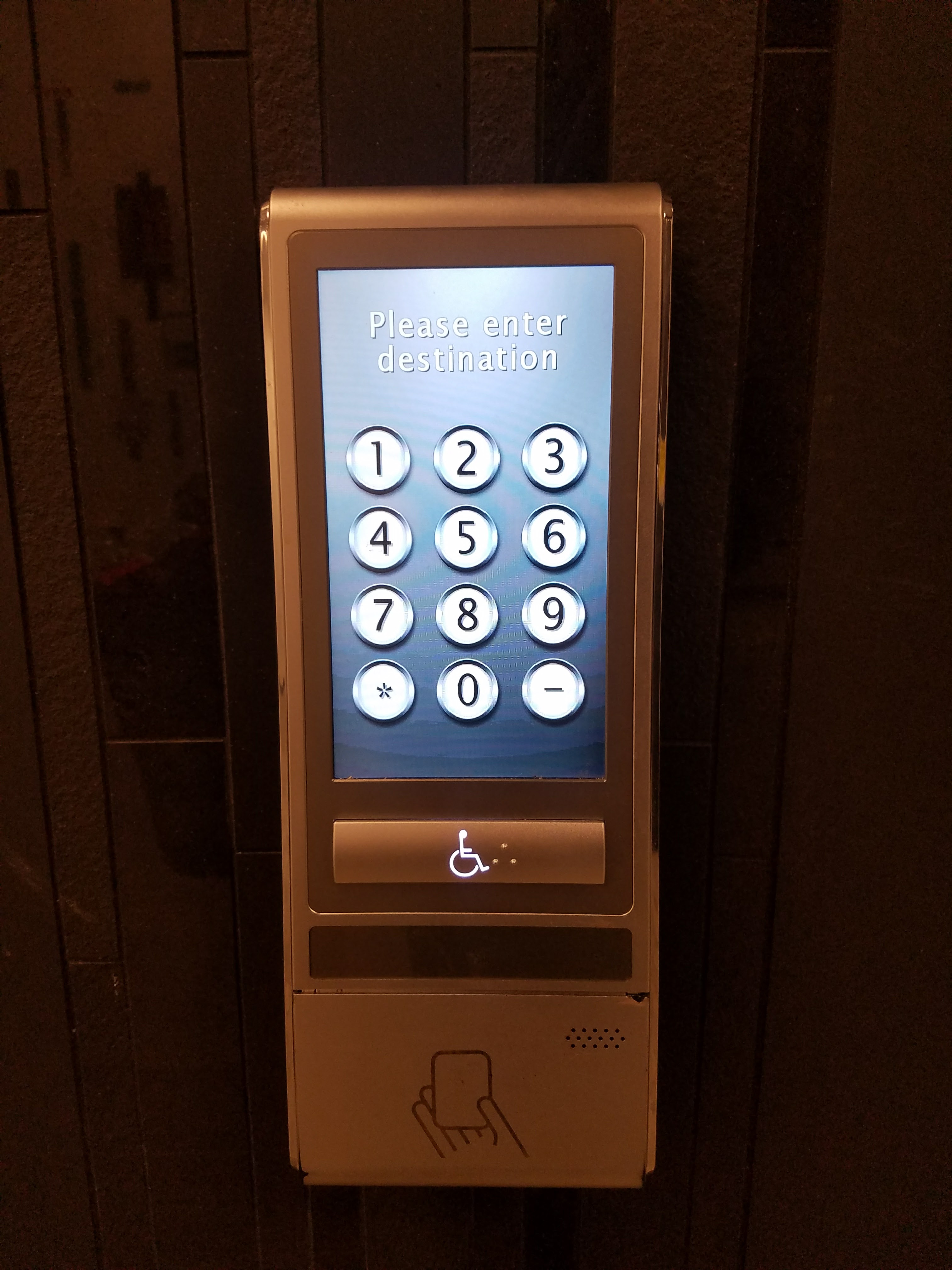 The destination control elevators at East Village Residence Hall at in Boston, MA. Floors are selected before entering the elevator and users are directed to one of four elevators, there are no floor select buttons within the elevator. Each floor has at least two floor selection panels, certain floors have RFID readers to allow access to the restricted 17th floor.